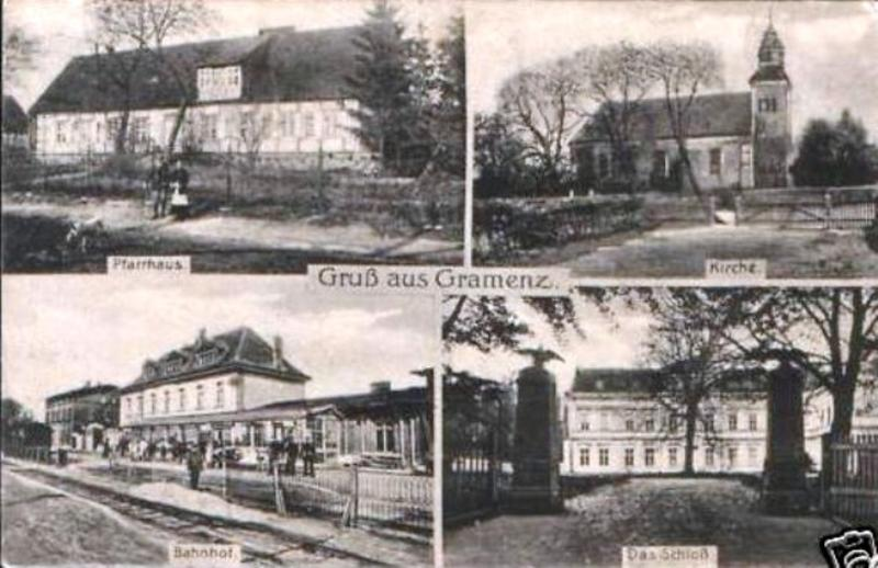 post card from grzmiąca